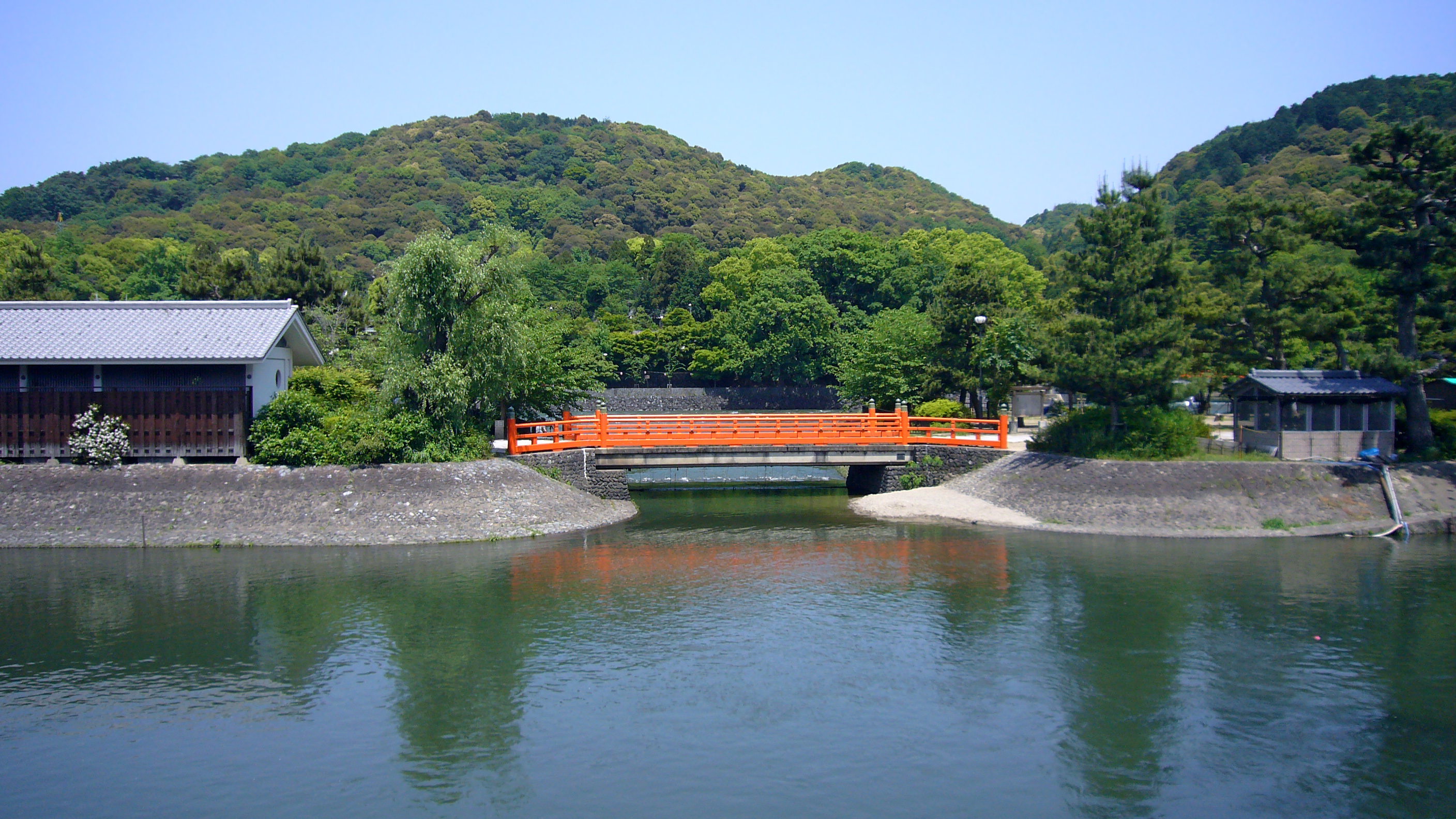 Uji River in Uji, Kyoto prefecture, Japan